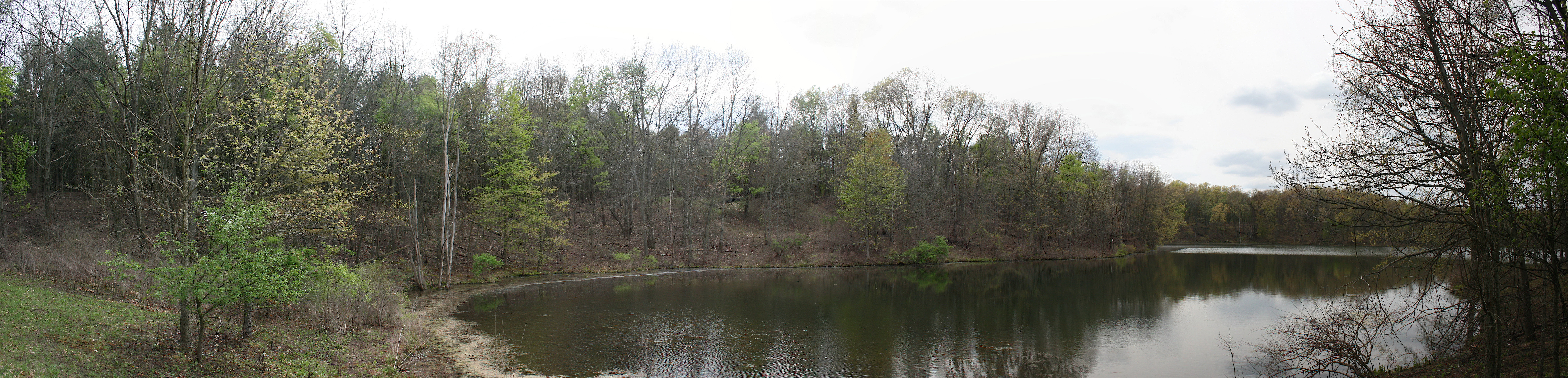 A view from Fort Custer Recreational Area's Red Trail between markers 14 & 15.